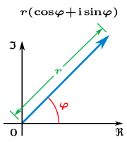 File:Complex_number_illustration_modarg.svg is a vector version of this file. It should be used in place of this raster image when not inferior. File:Complex number illustration modarg.png File:Complex_number_illustration_modarg.svg For more information about vector graphics, read about Commons transition to SVG. There is also information about MediaWiki's support of SVG images.